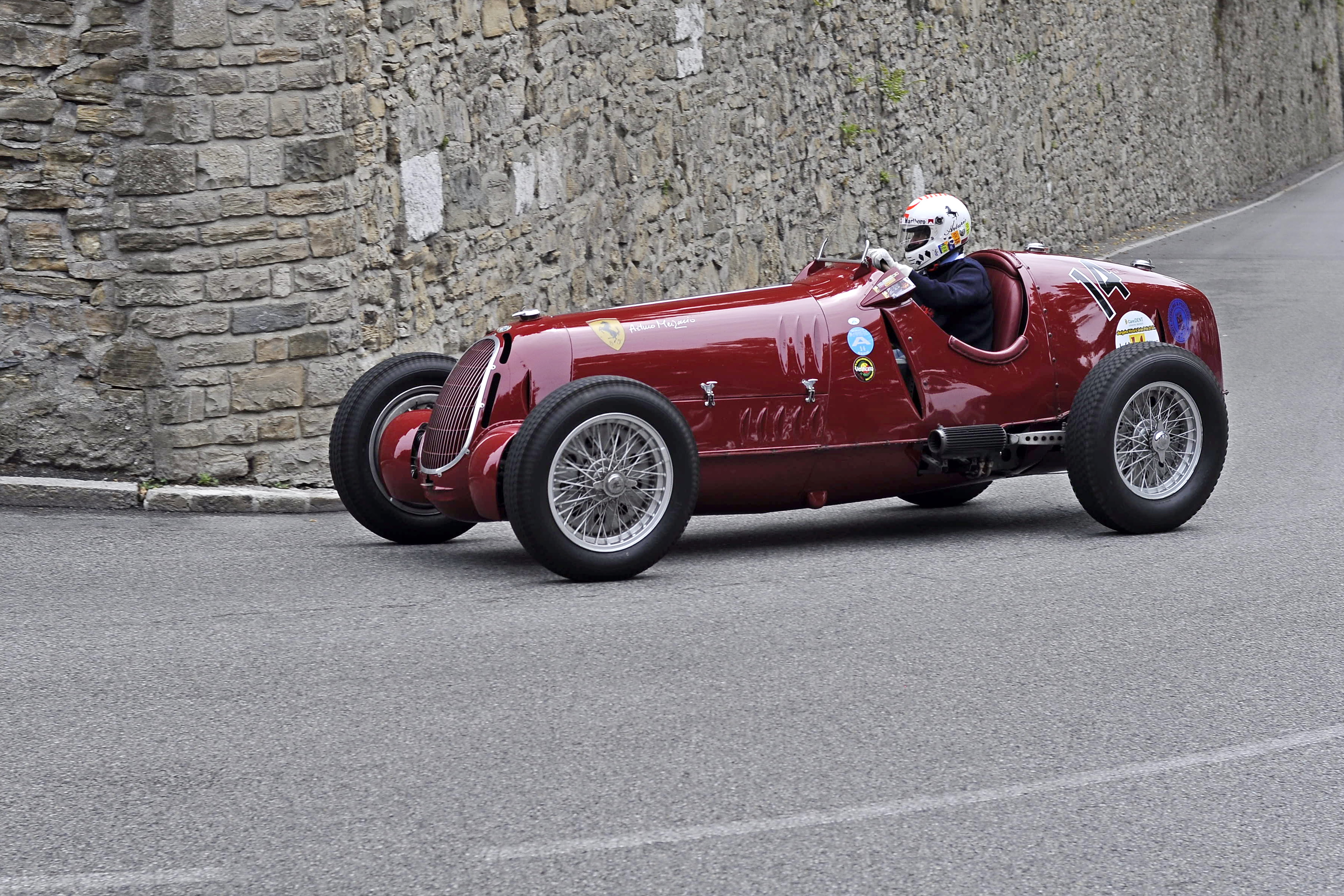 Alfa Romeo 1935 Tipo C 8C-35, in the historic trial in the circuit of the walls of Bergamo June 15, 2014. Piloted by Arturo Merzario, this is the original car that was driven by the driver Tazio Nuvolari on the same circuit.